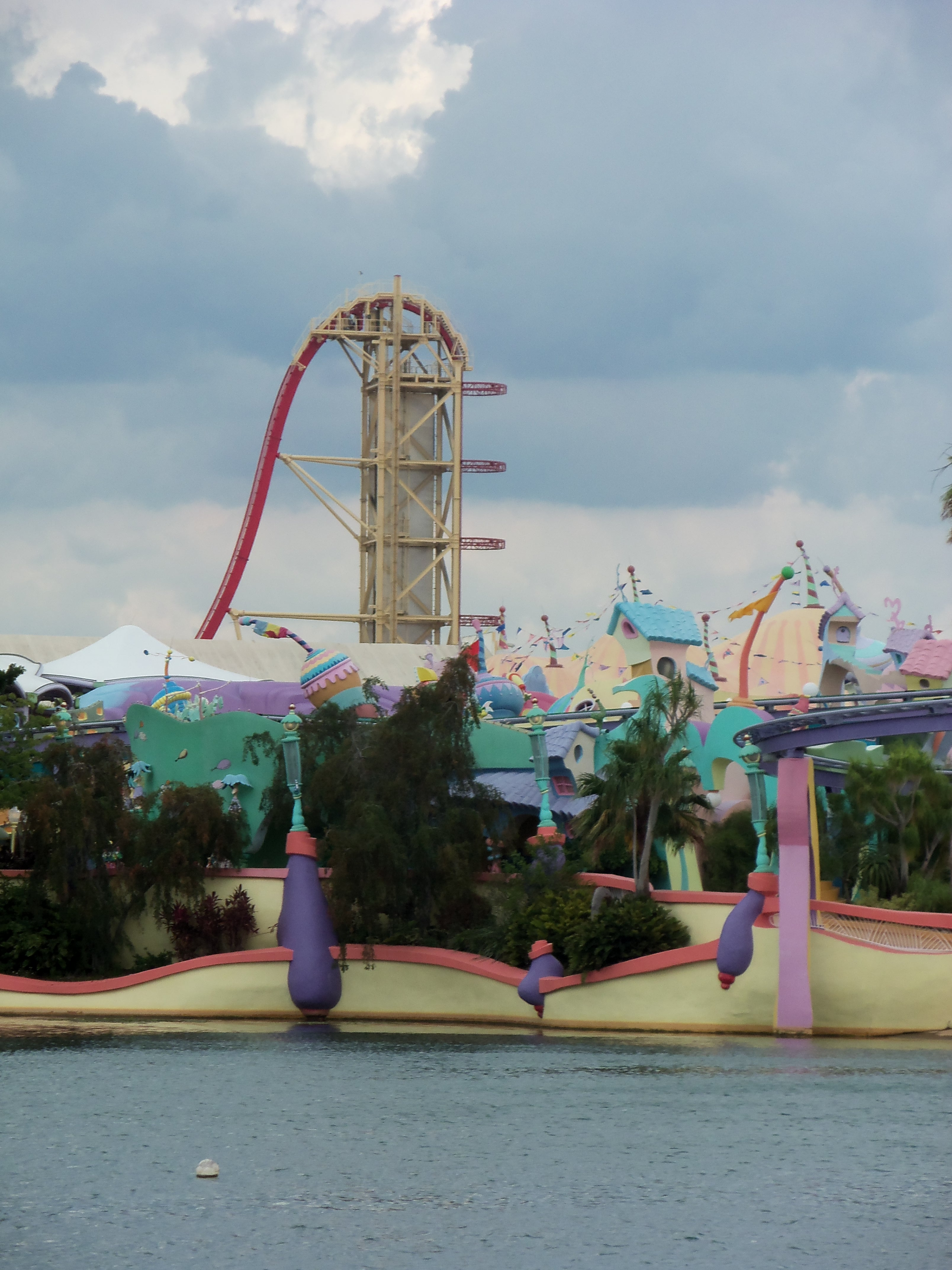 This is the Hollywood Rip Ride Rockit as seen from Toon Lagoon at Universal's Islands of Adventure (Orlando, FL).